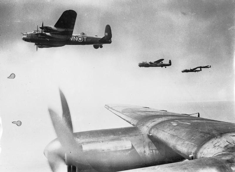 Royal Air Force Bomber Command- the Strategic Air Offensive, 1939-1945. Avro Lancasters of No 50 Squadron, Royal Air Force (No 5 Group), based at Skellingthorpe, Lincolnshire, England, flying in loose formation.